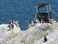 Today, 109 puffin pairs waddle about peaceably on Eastern Egg Rock, Maine.